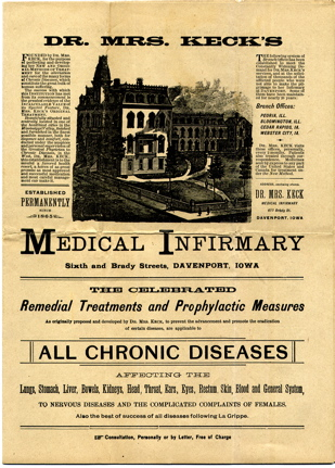 four-page flyer for biz